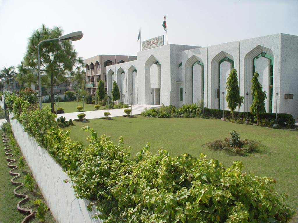 Source: Minhaj ul Quran International